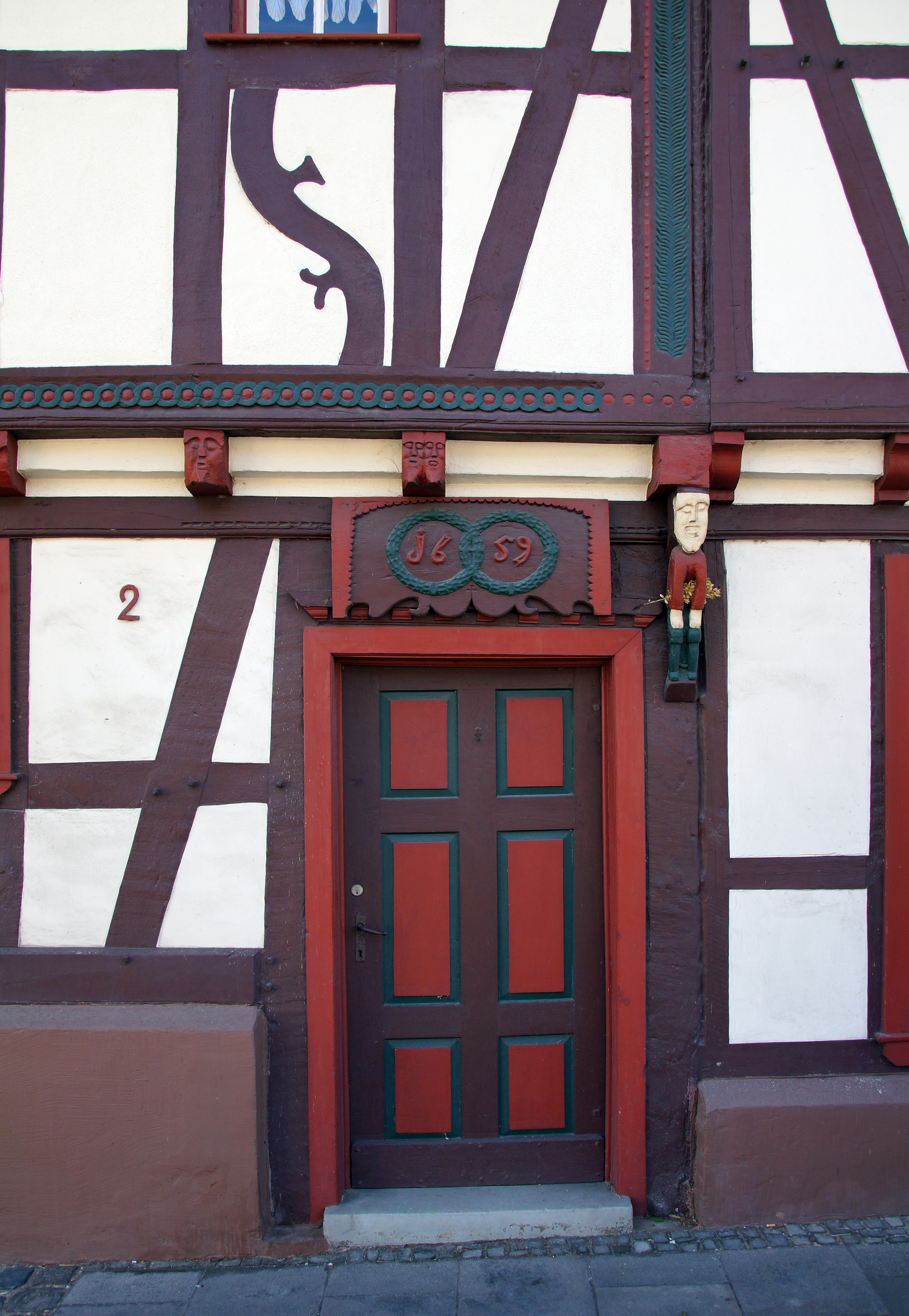 Half-timbered house in Kreuzweingarten, Hubertusstraße 2: detail